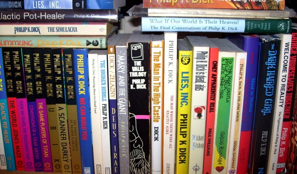 shelf of books by and about Philip K. Dick, showing the spines only